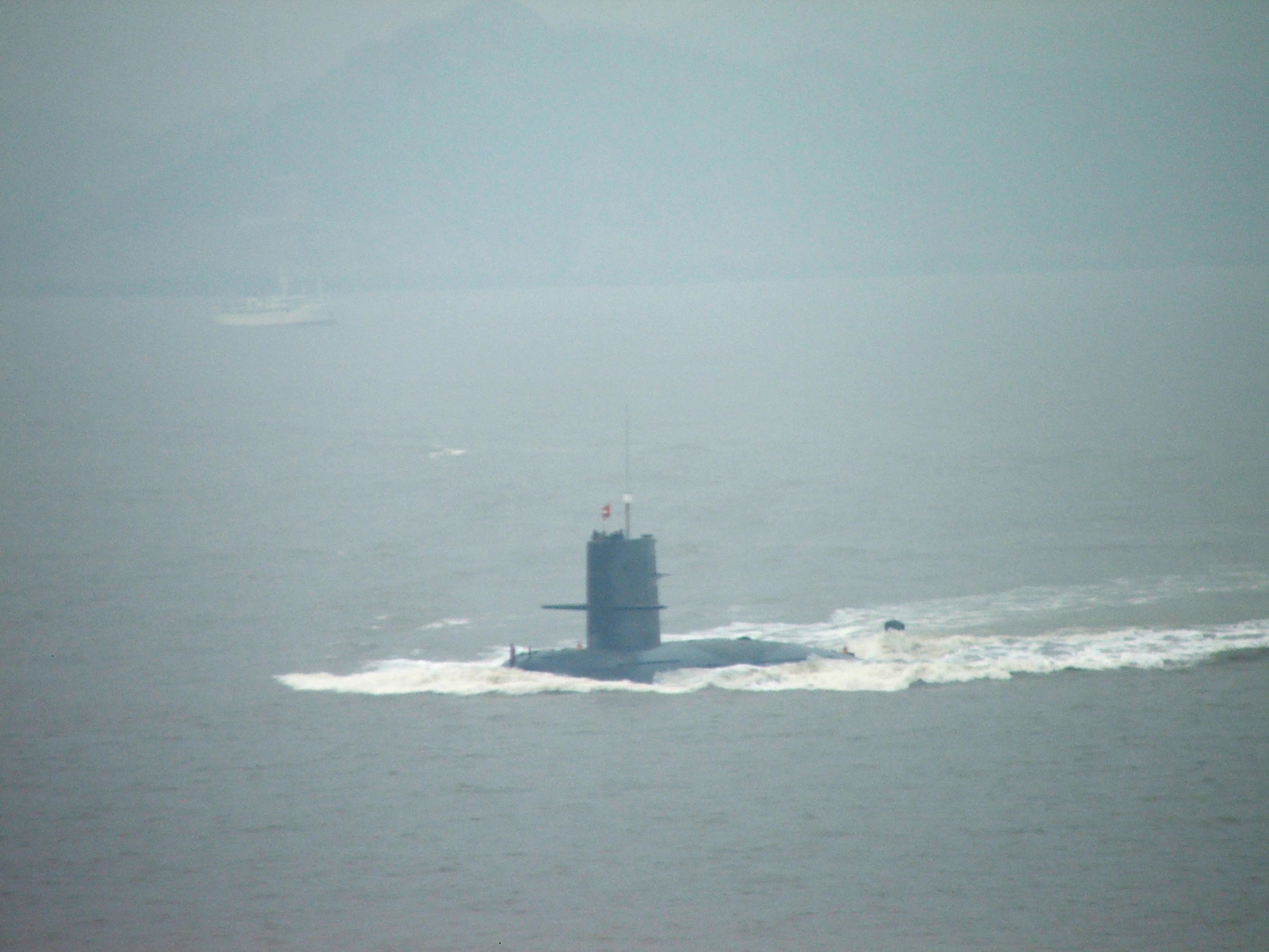 Song-class Submarine